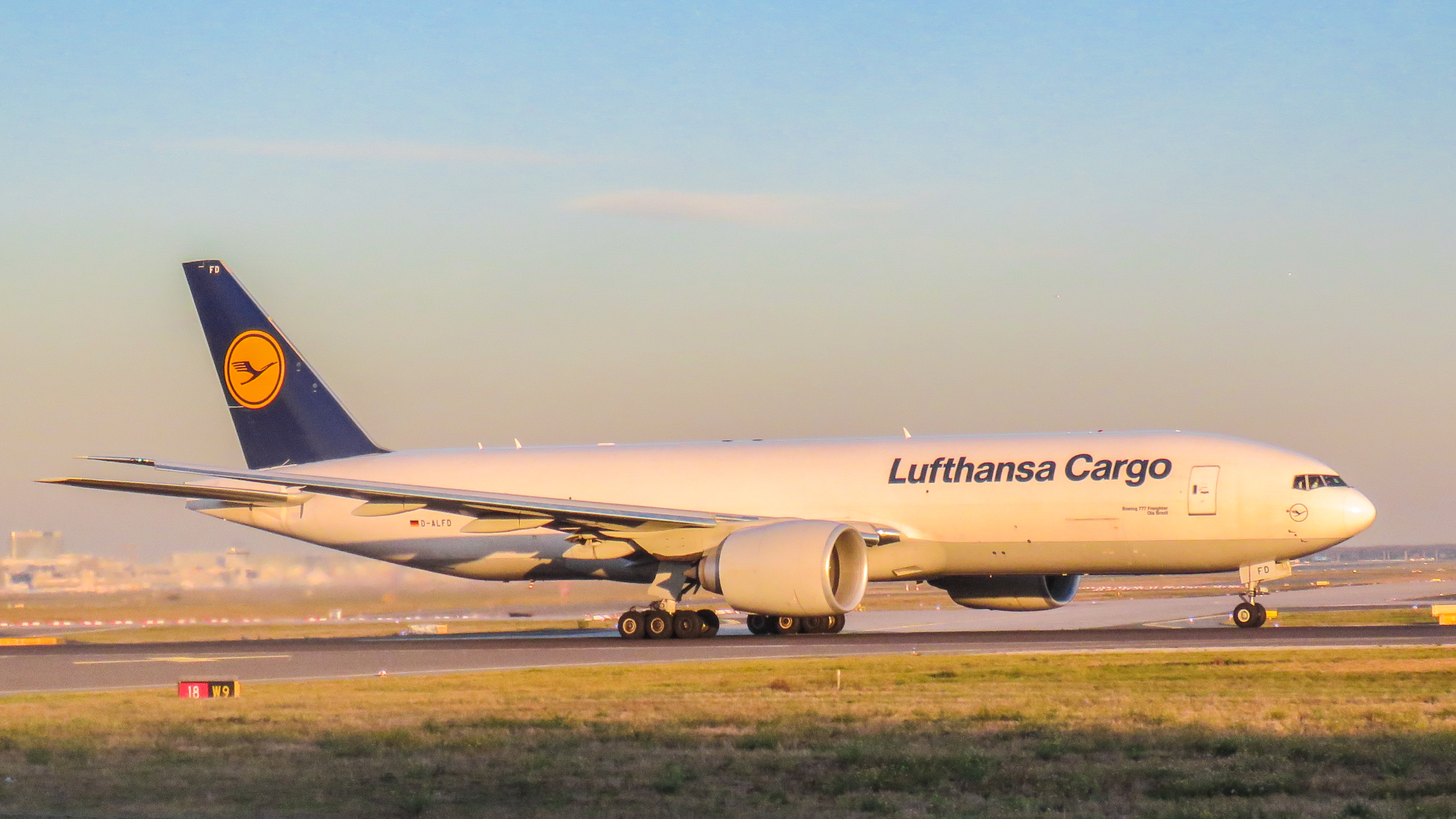 Lufthansa Cargo Boeing 777-FBT D-ALFD "Olá Brazil"